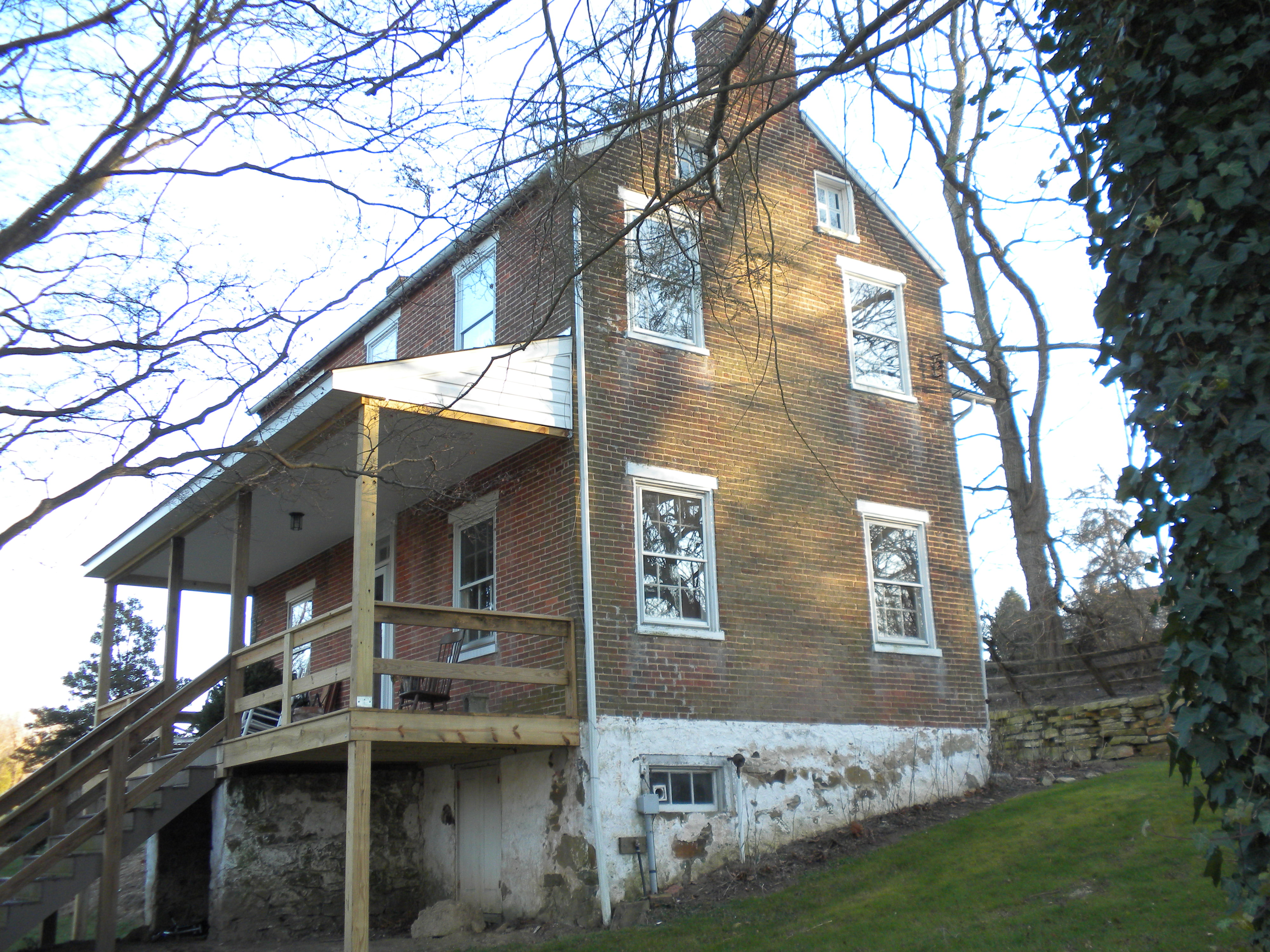 House in Hopewell Historic District near Oxford, PA in Chester County. On NRHP. Own work donated to public domain.